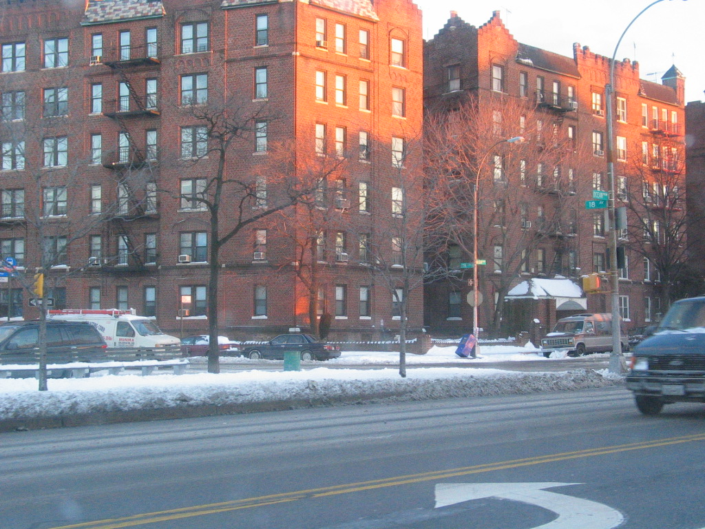 On the corner of Ocean Parkway and 18th Avenue